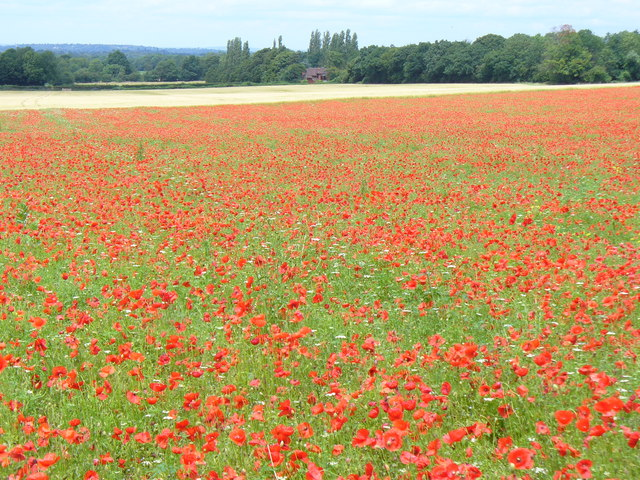 A great bloom of red poppies in this setaside field next to Sheepleas, West Horsley.